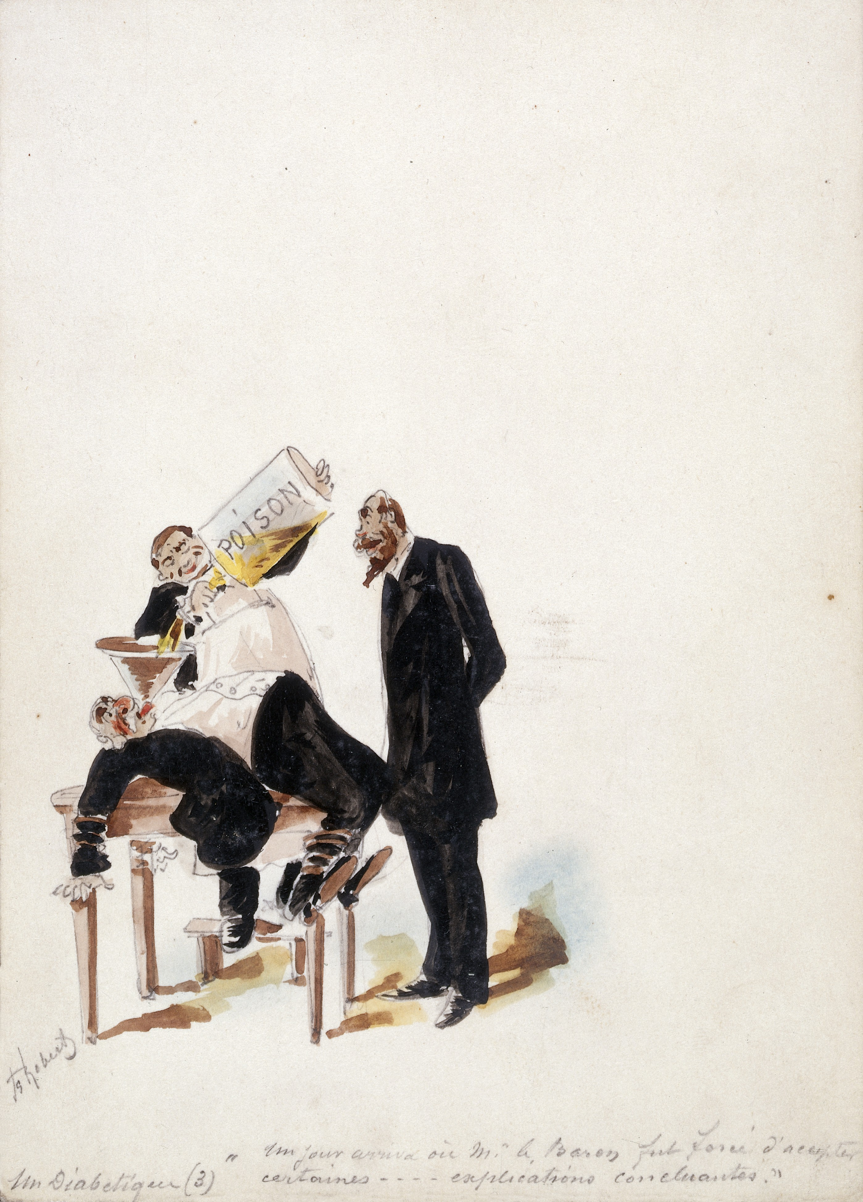 The Panama Canal: Baron de Reinach, one of the promoters of the canal, is forced to swallow poison. Watercolour drawing by H.S. Robert, ca. 1897. Iconographic Collections Keywords: Maurice Rouvier; Compagnie universelle du canal interocéanique de Panama; the panama canal; Jacques Reinach; catalogue no. 532775i; Georges Clemenceau; H.S. Robert; ic; 1897; h.s. robert; Cornelius Herz; baron de reinach